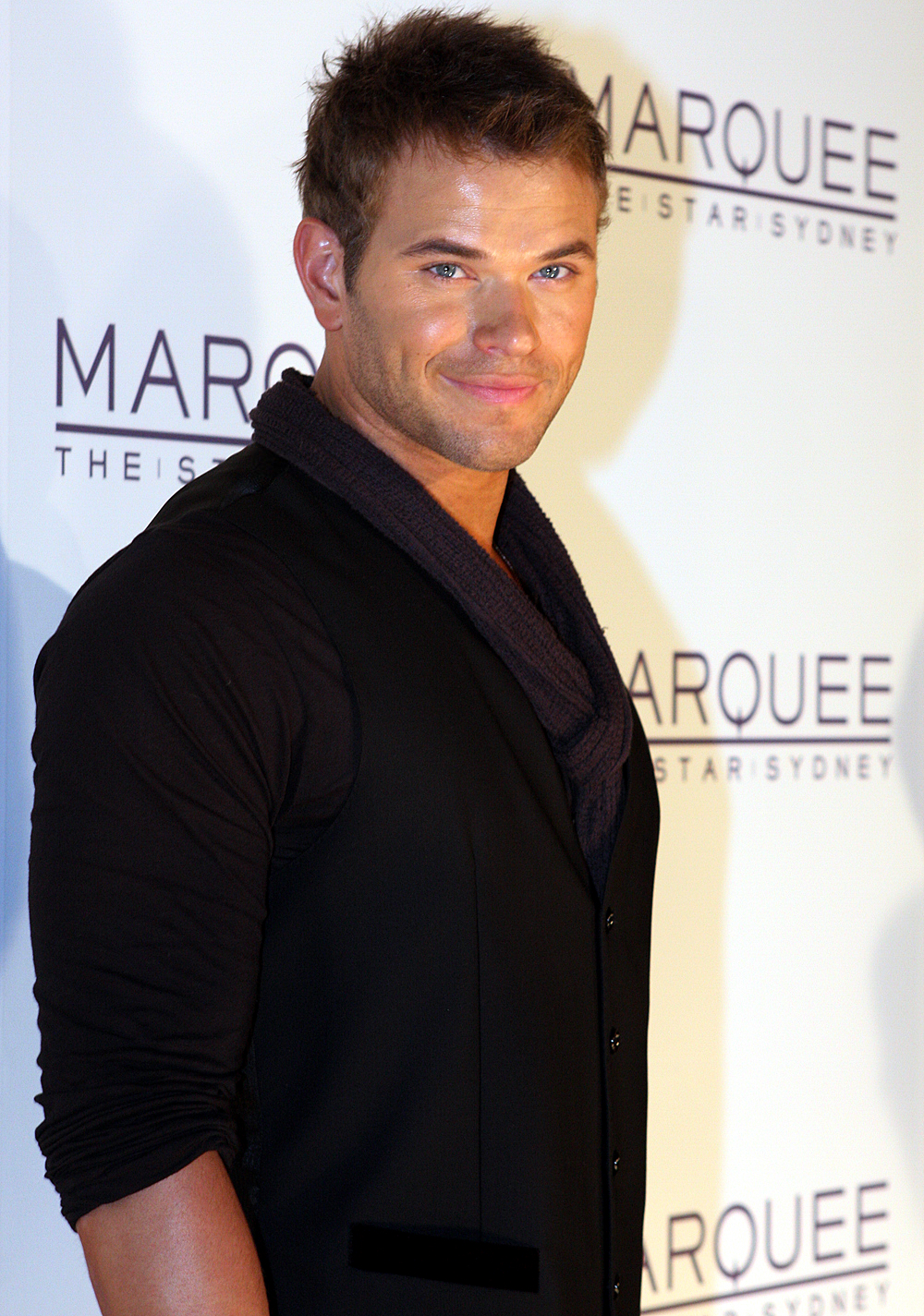 Kellan Lutz at the Paris Hilton: Marquee The Star Sydney 2012.